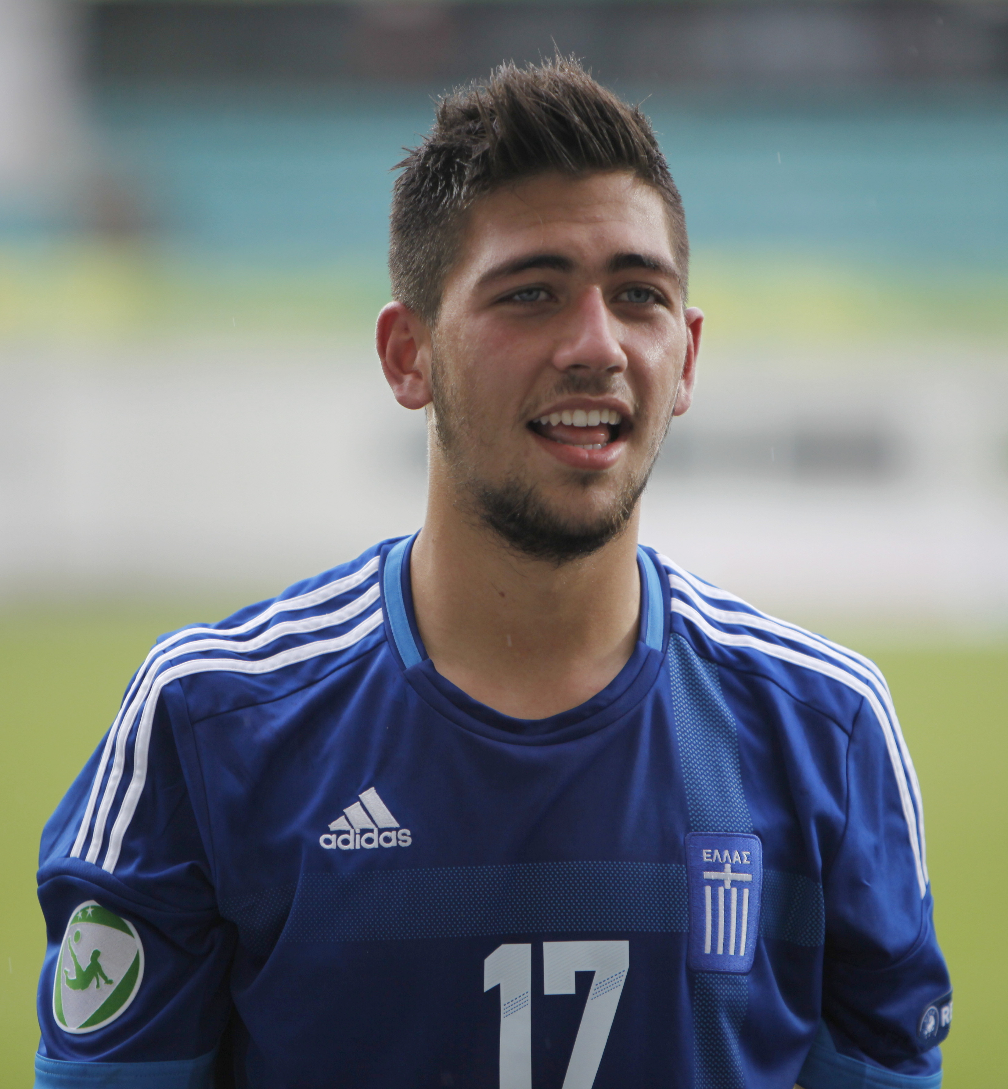 Anastasios Bakasetas playing for Greece U19